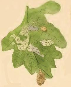 Stainton’s Natural History of the Tineina (1855–1873): Incurvaria masculella